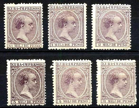 Complete set of Cuban 1892 stamps used for mailing periodicals or newspapers. Depiction of Alfonso XIII. Denominations ranged from ½ to 8 milésimas de peso. Scott # P13-P18.